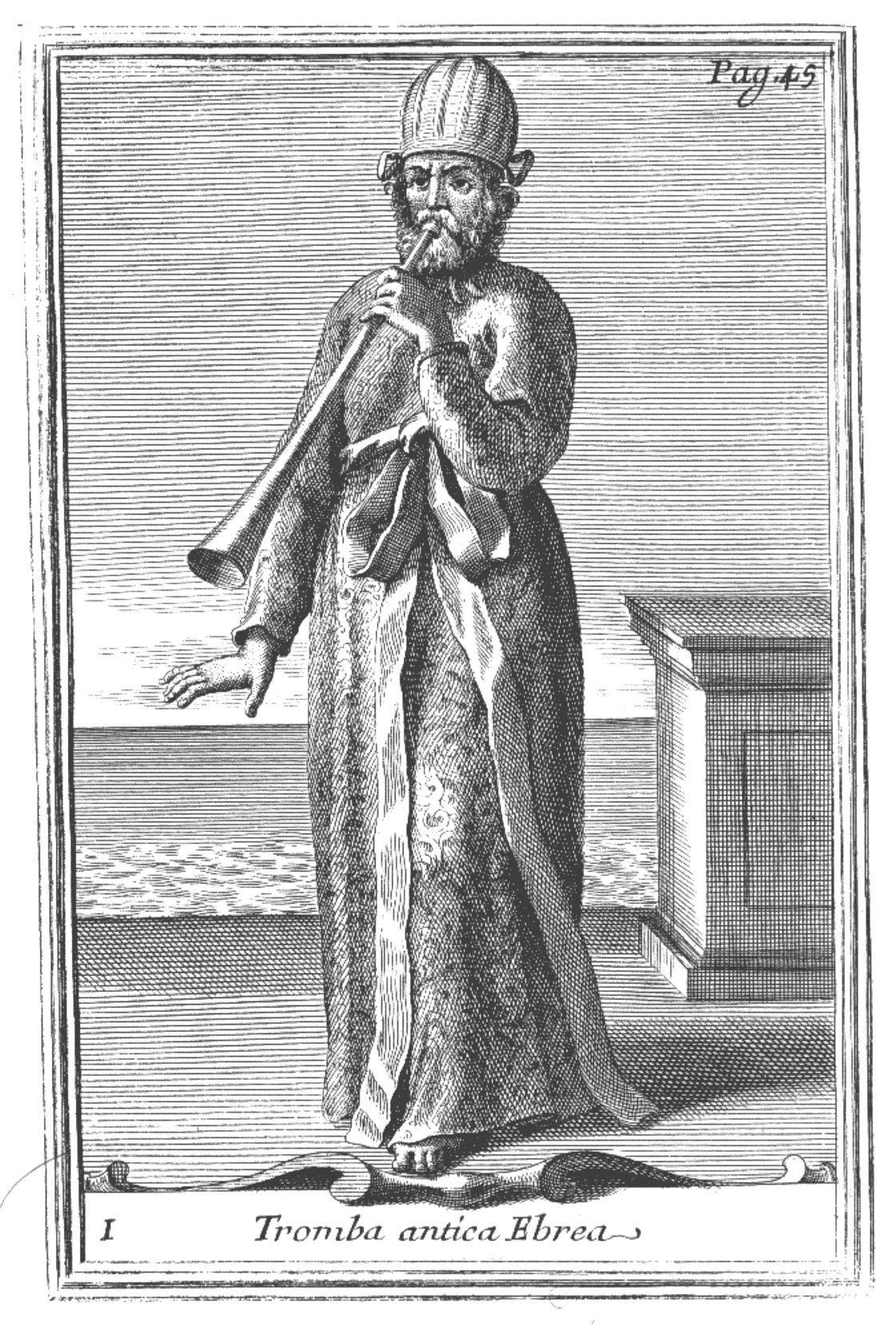 "Hebrew trumpet" from Filippo Bonanni: Gabinetto Armonico pieno d'istromenti sonori (1723).